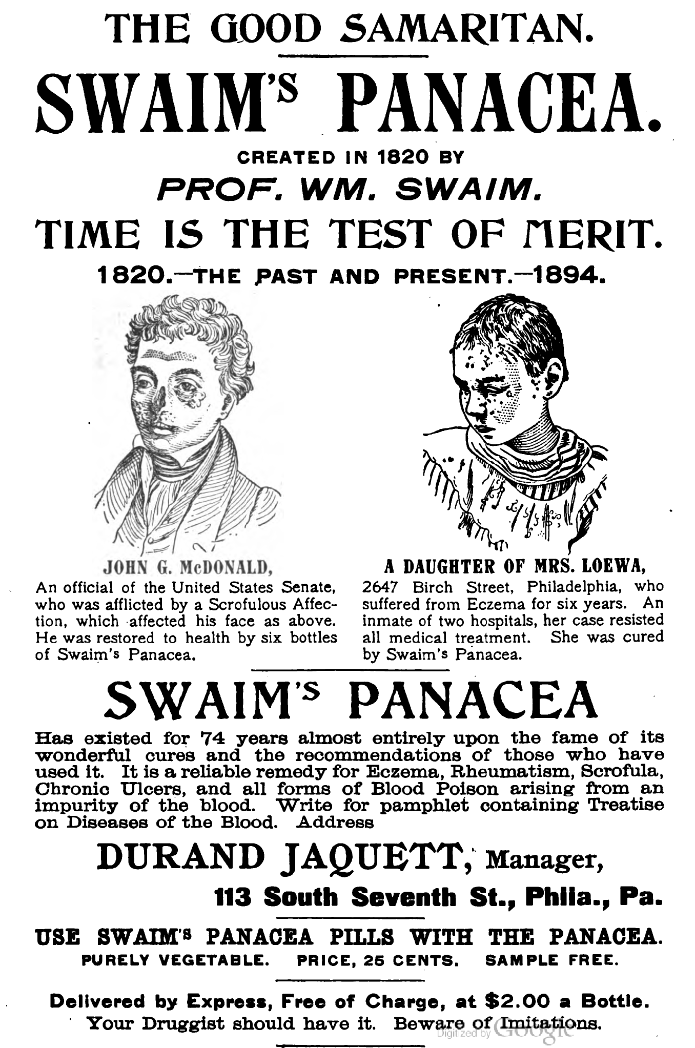 1894 advertisement for Swaim's Panacea, appearing in the 1895 Philadelphia Record Almanac